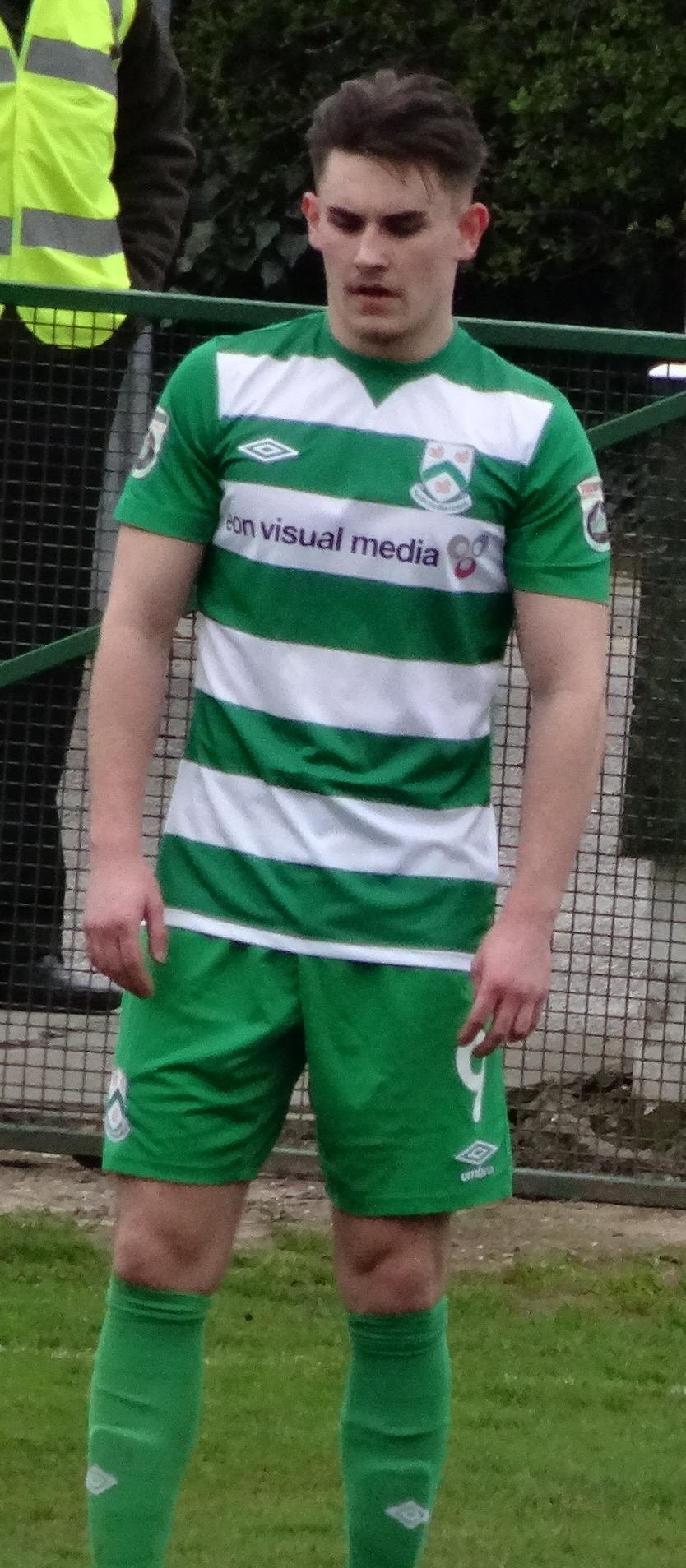 Matty Templeton playing for North Ferriby United against Solihull Moors at Grange Lane, North Ferriby on 18 March 2017